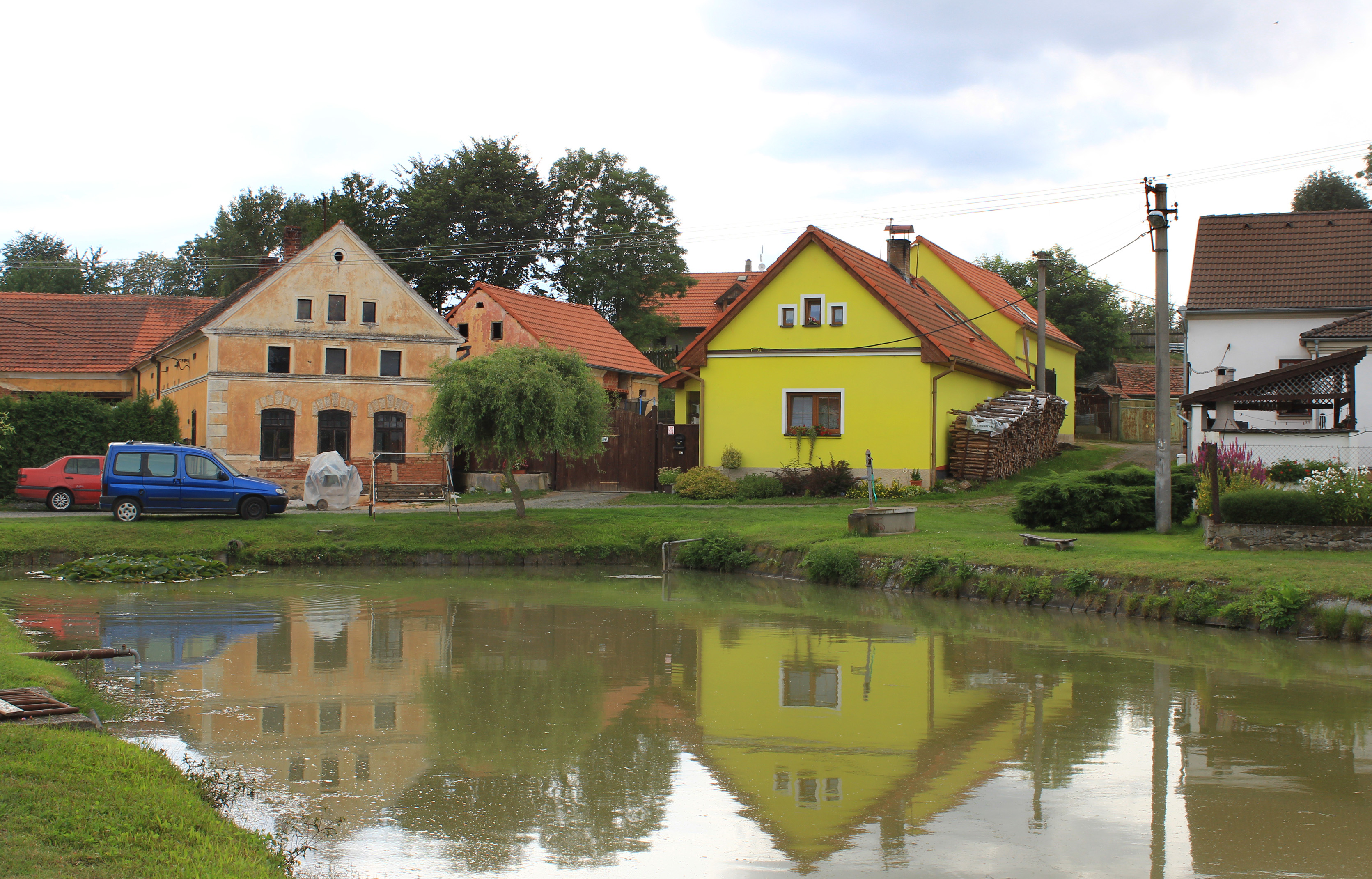 Common pond in Lisov, Czech Republic.